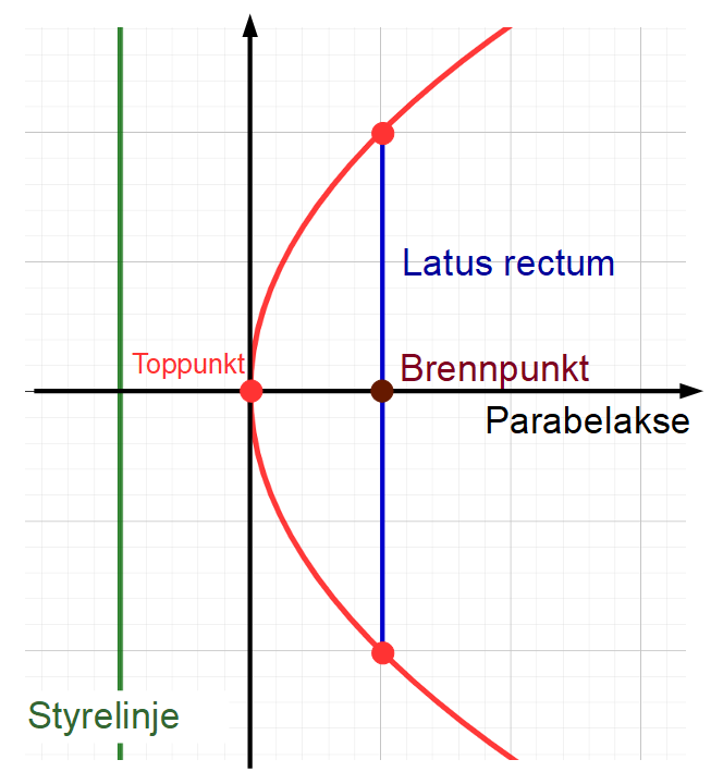 Terminology for a parabola. Norwegian